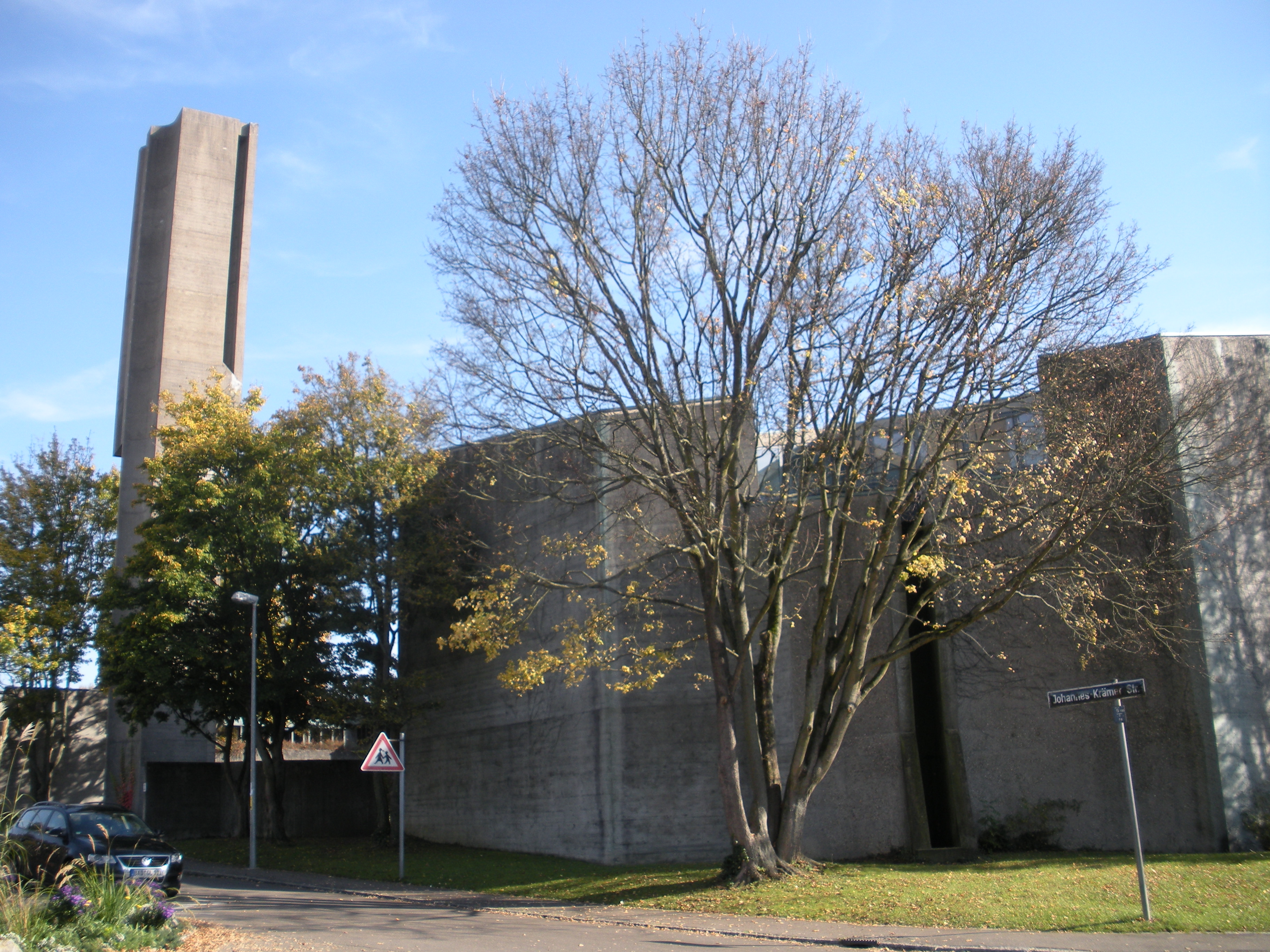 Protestant Church in Stuttgart-Sonnenberg